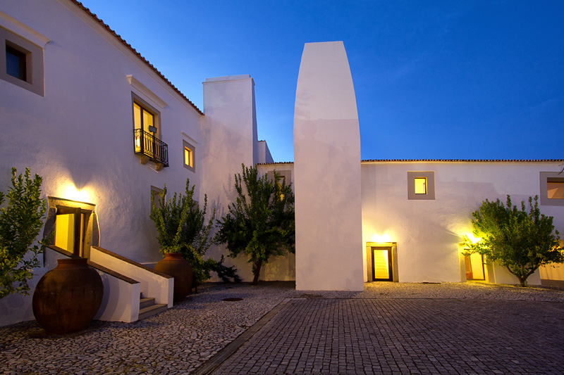 This file was uploaded for Wiki Loves Monuments in Portugal with the unique identifier 73657.